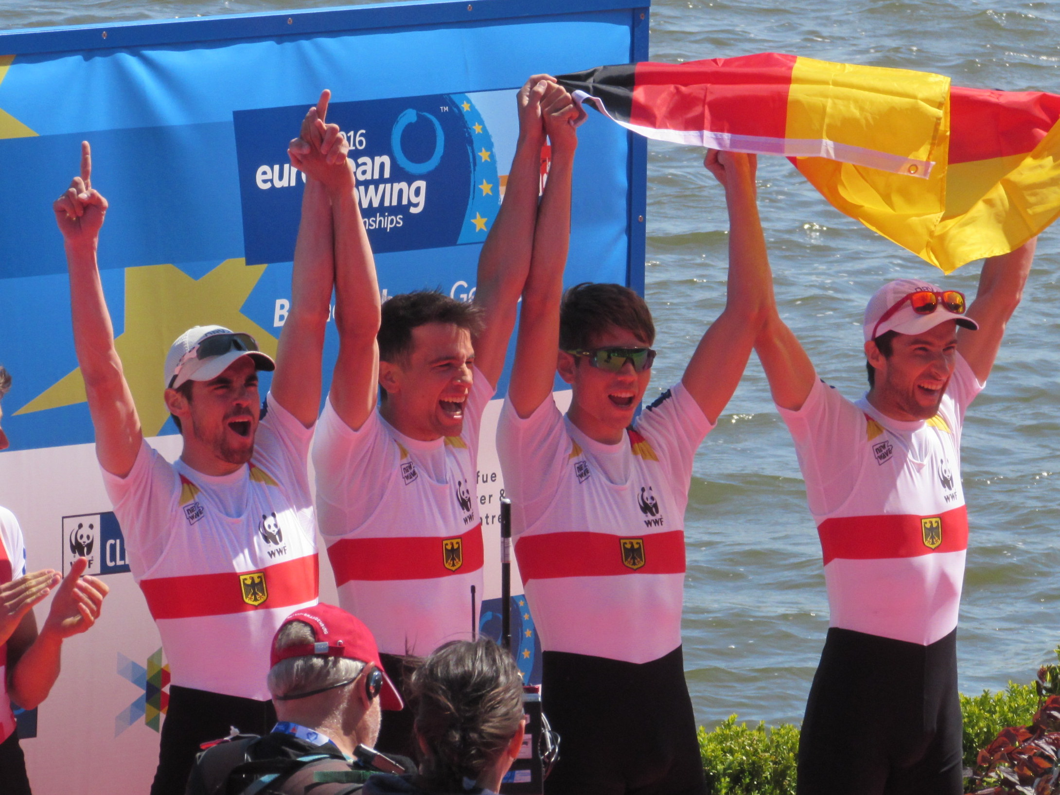 From left: Jonathan Koch, Lucas Schäfer, Tobias Franzmann, Lars Wichert at the 2016 European Rowing Championships